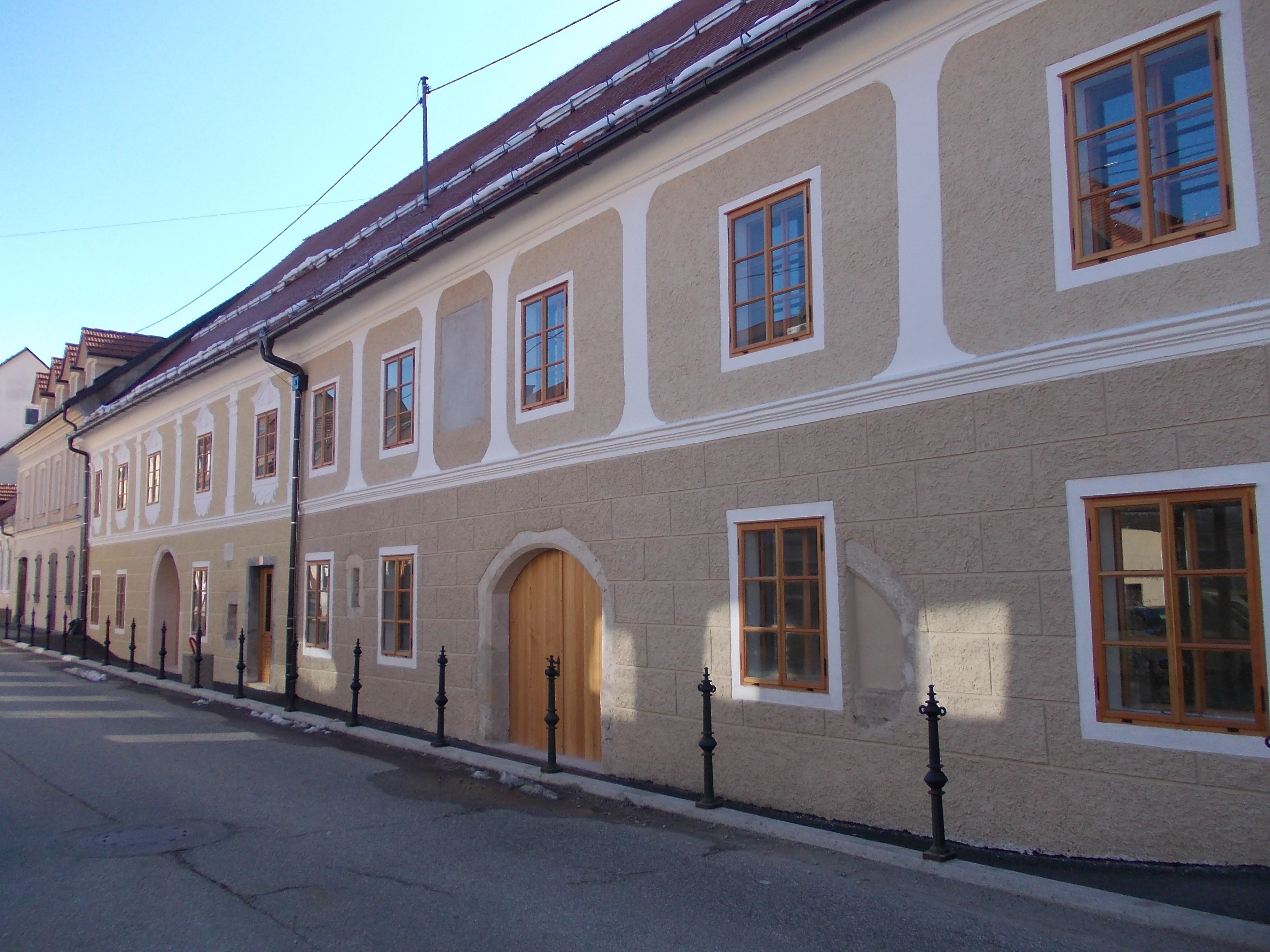 Valvasor-Mencinger house, Krško